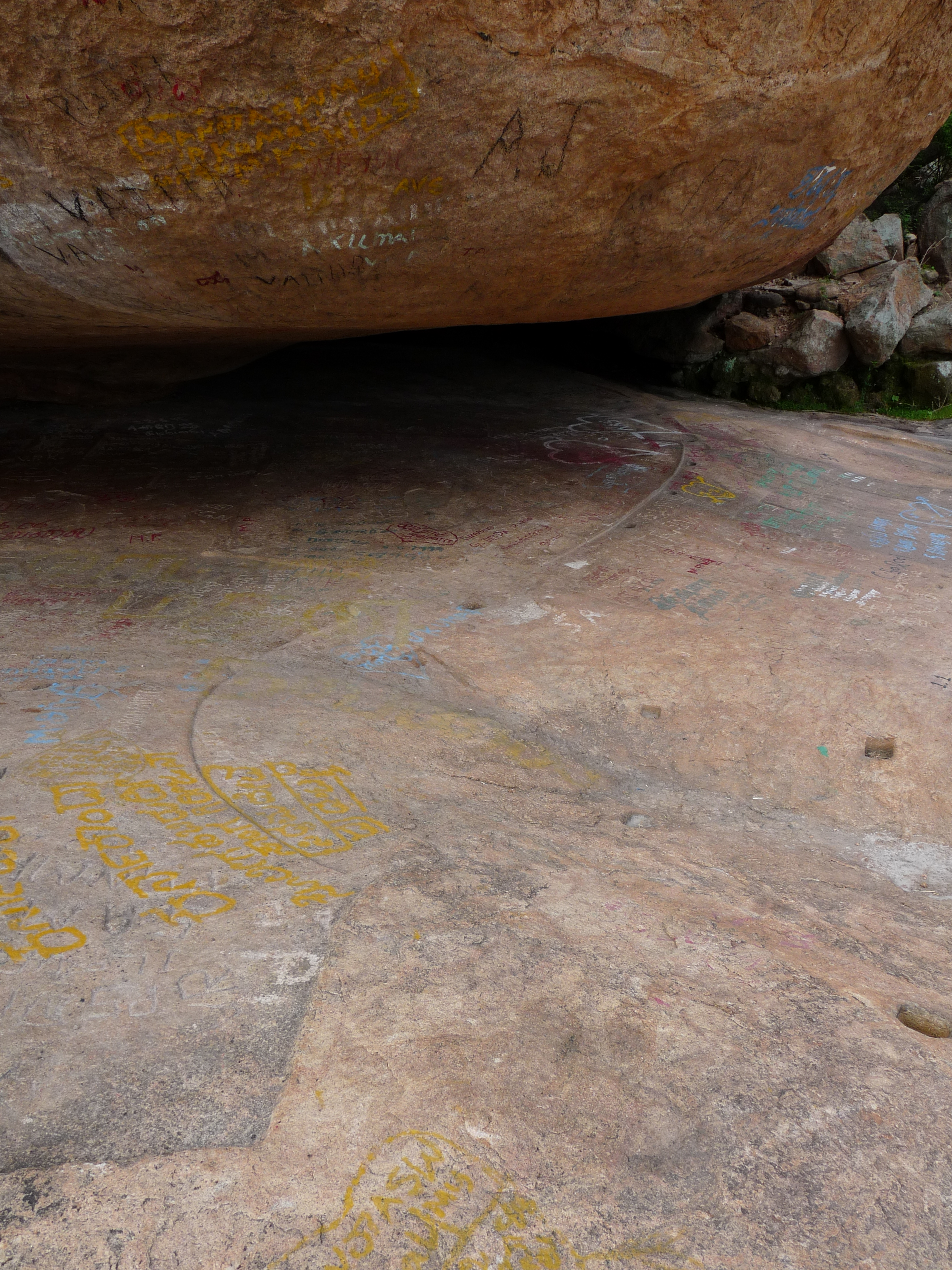 Kizhalavau rocK cut caves with Bhrami inscriptions, and jain sculptures-panchapandavar beds